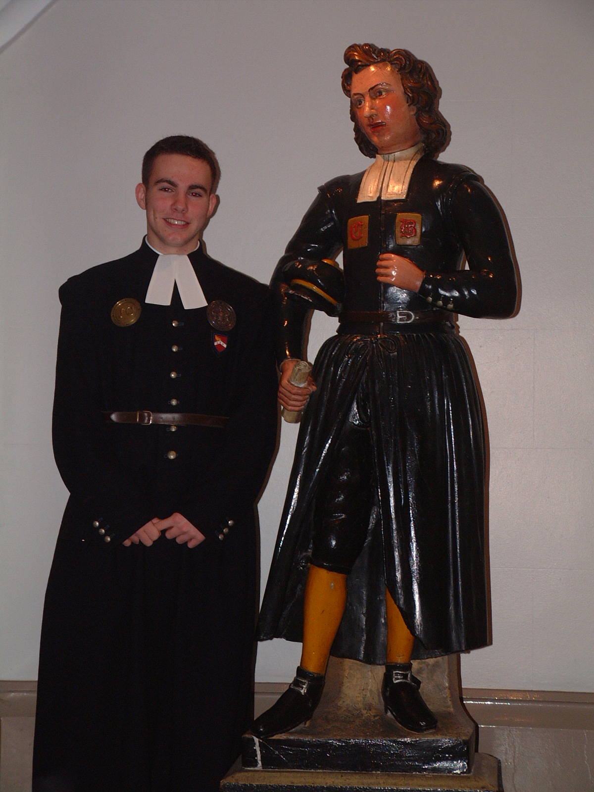 Photo of the 2002 Captain of School of QEH in Bristol, standing beside a statue of a Bluecoat boy, supposedly John Carr himself, inside the school entrance hall.